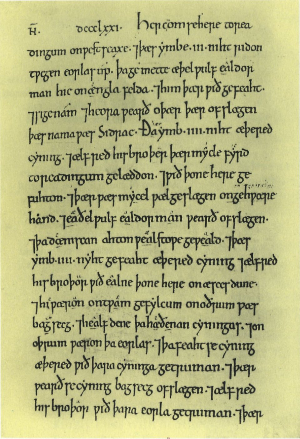 A page from the C manuscript of the Anglo-Saxon Chronicle. It shows the entry for the year 871. British Library Cotton Tiberius B i.